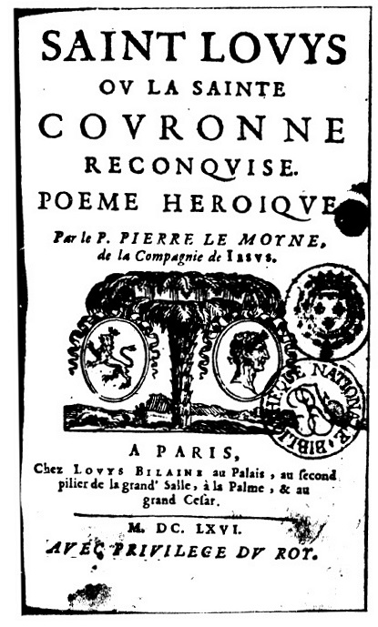 Title page of Saint Louis ou la Sainte Couronne Reconquise by Pierre le Moyne